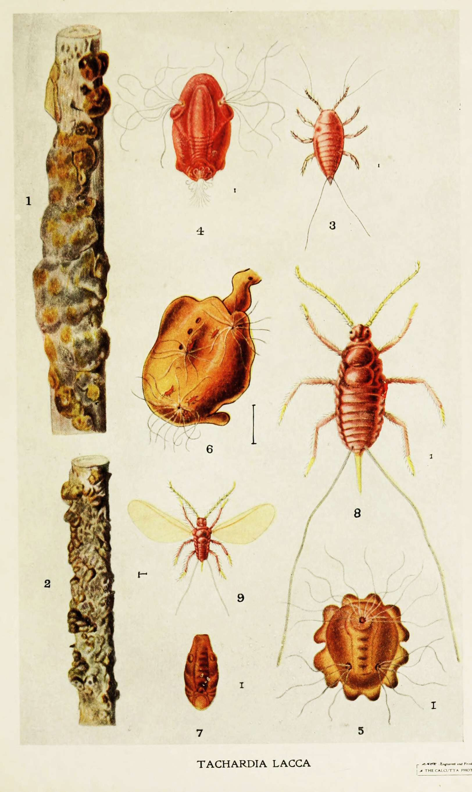 Picture of Kerria lacca from book Indian Insect Life: a Manual of the Insects of the Plains by Harold Maxwell-Lefroy. 1. Healthy insects on stick 2. Unhealthy insects on stick 3. First instar, active stage. 40x 4. Female, 4 weeks after inoculation. 35x. 5. Female, 13 weeks after inoculation. 15x. 6. Dead female cell, with young emerging. 4x. 7. Male cell, 13 weeks after inoculation. 15x. 8. Wingless male. 12x. 9. Winged male. 40x.